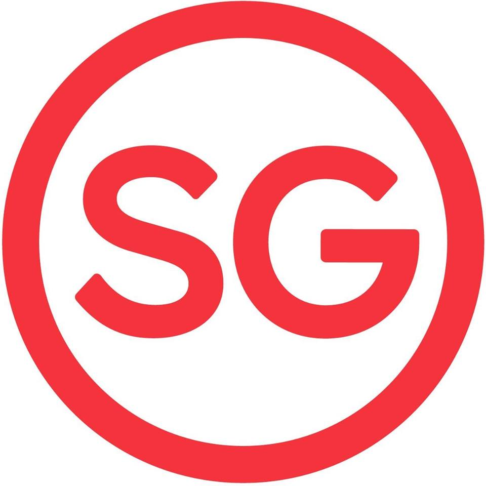 Trademark